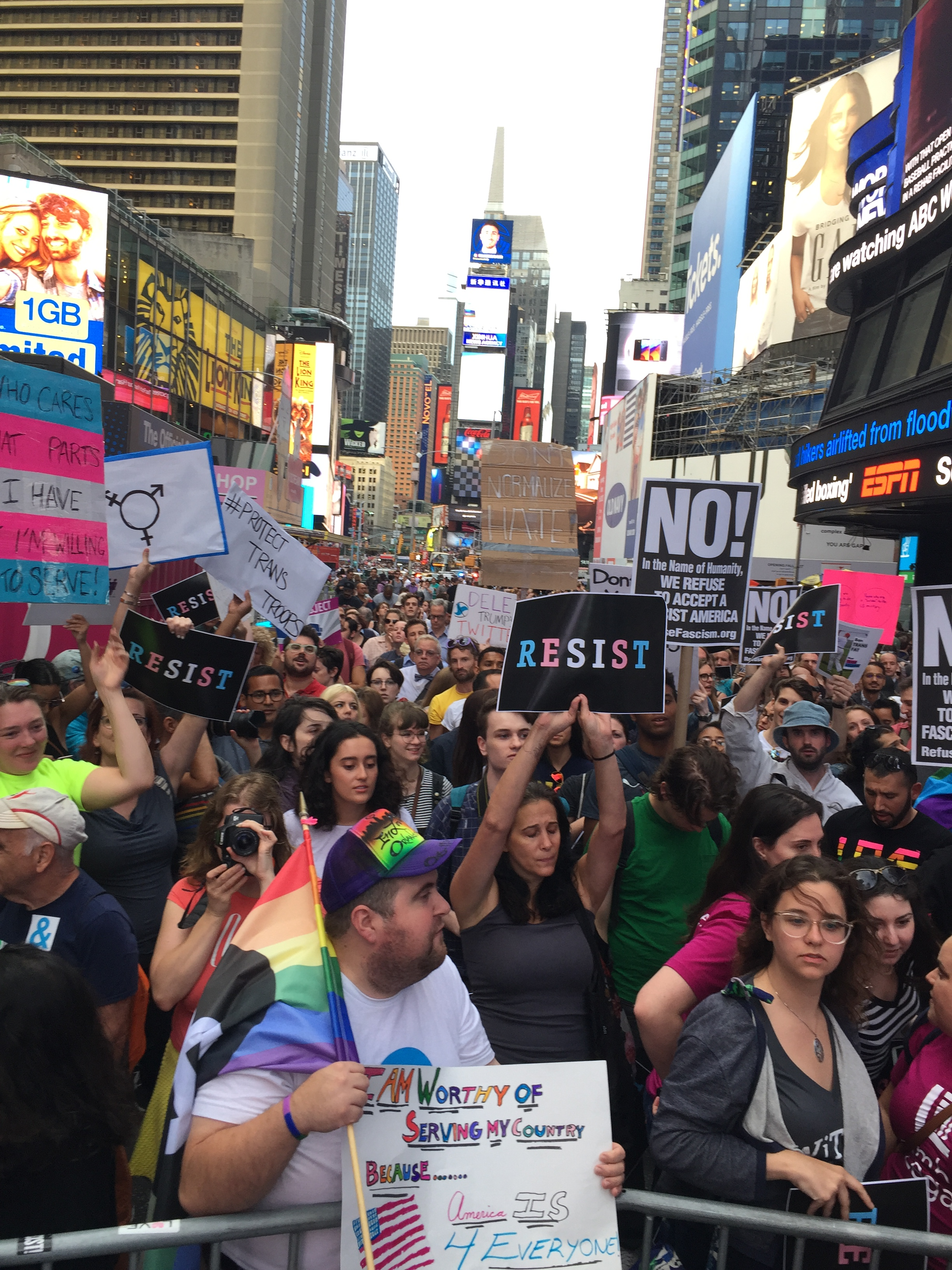 A protest held July 26, 2017 in Times Square outside the U.S. Army Recruiting Center in response to President Trump tweeting that transgender people would no longer be allowed to serve in the U.S. military.